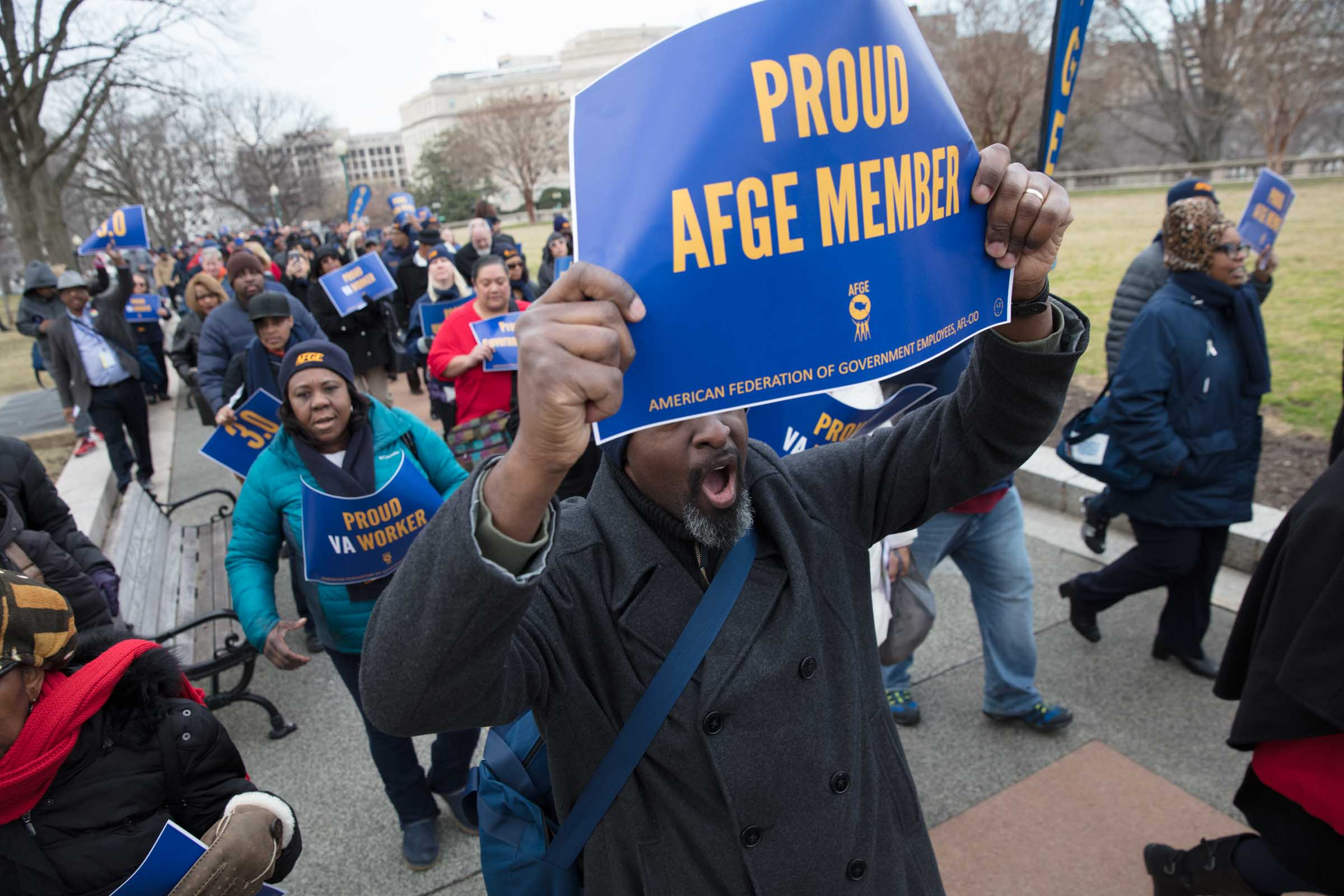 The Trump administration and lawmakers shut down the government twice over policy disputes in January and February. But we worked with Congress to ensure that the employees affected by the shutdown would receive backpay since it was not their fault that they were locked out of work. Now, we are facing the risk of a third shutdown this year. We’re urging all parties not to hold agency funding hostage to controversial policies unrelated to the budget.